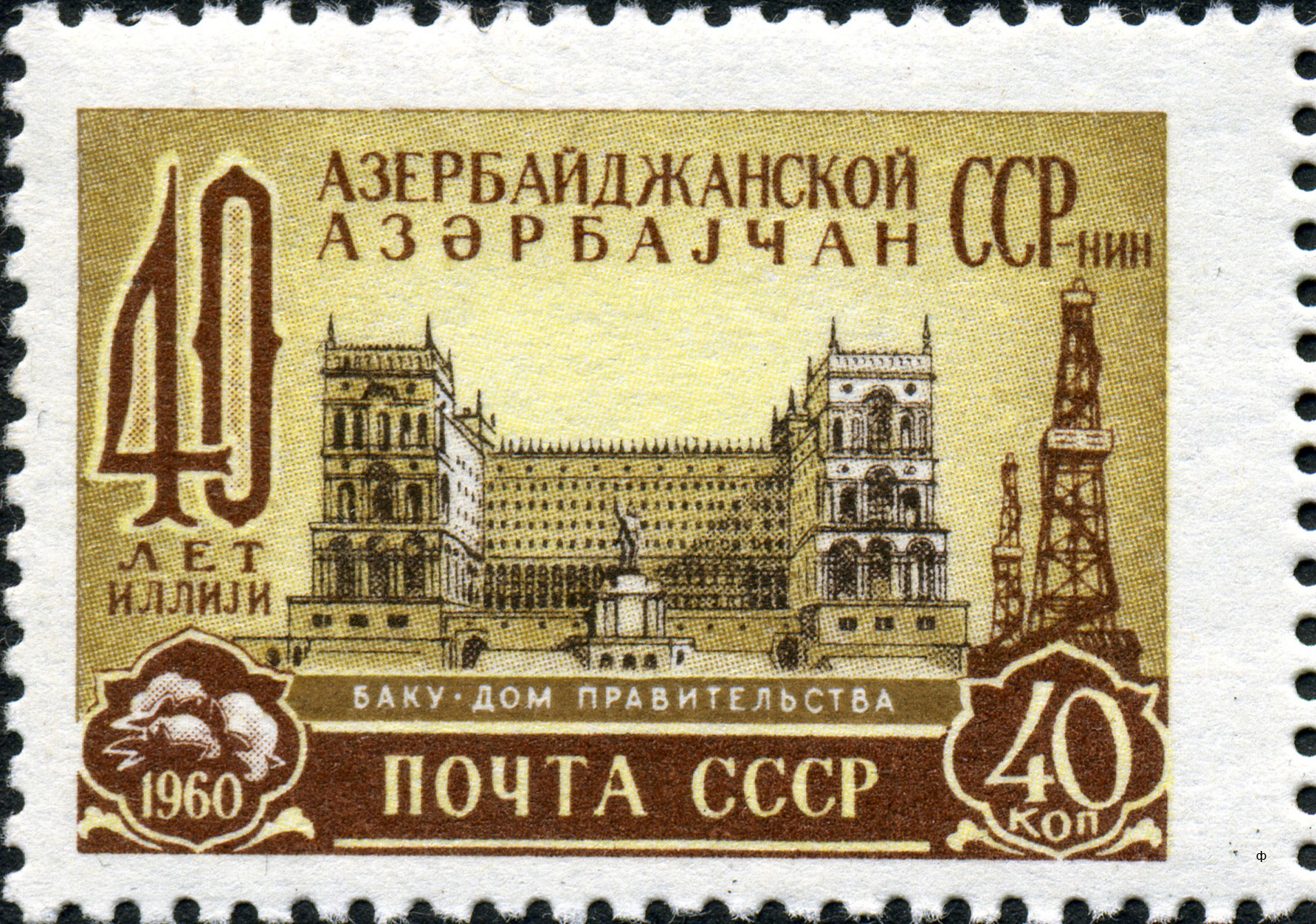 Soviet Union stamp, 40th anniversary of Azerbaijan Soviet Socialist Republic, Baku, Government House (architects L. Rudnev & V. Munts, 1952) and monument to Lenin (sculptor D. Karyagdy, 1955); 1960, 40 kop., CPA No. 2417.